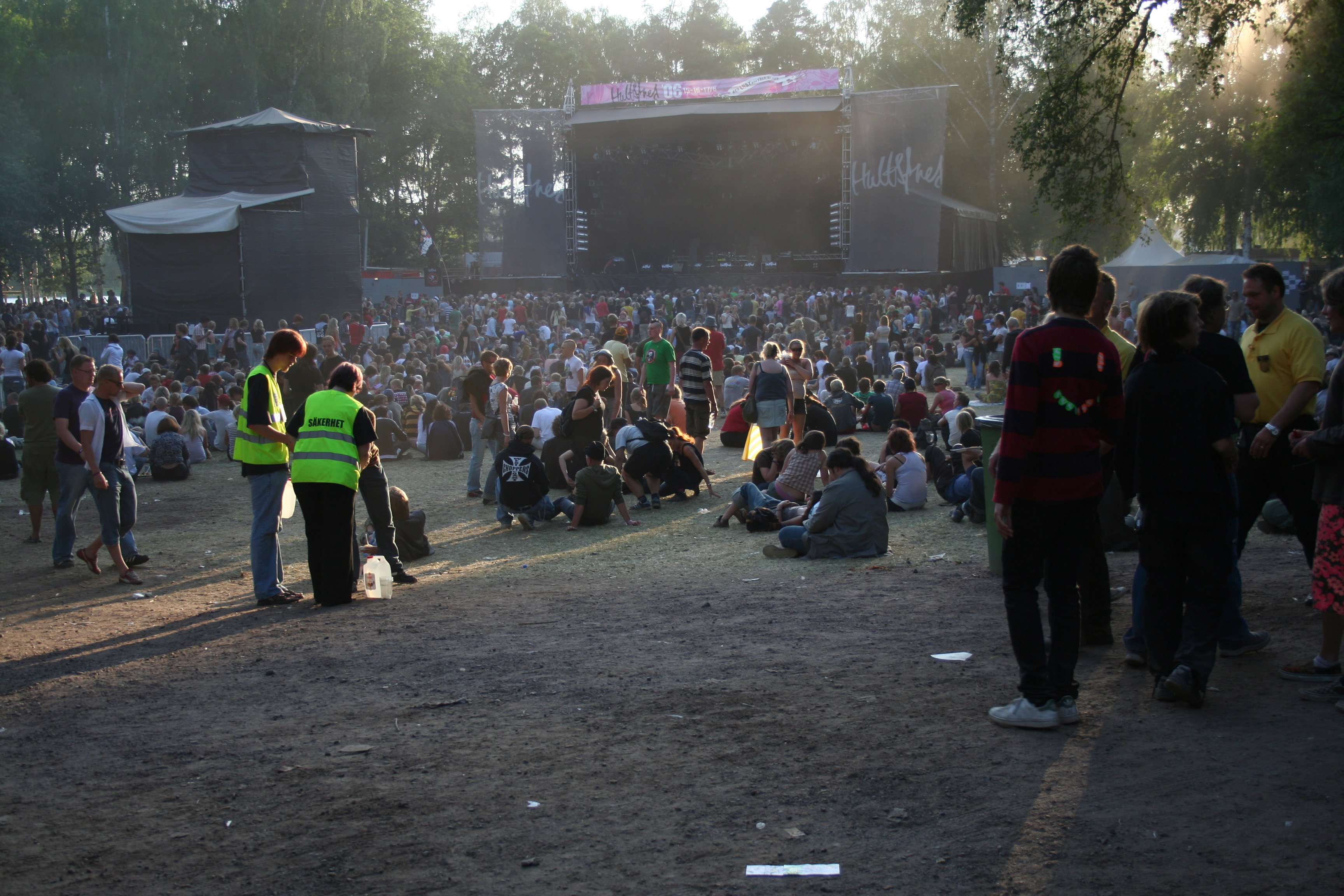 People waiting for Kent, I think.